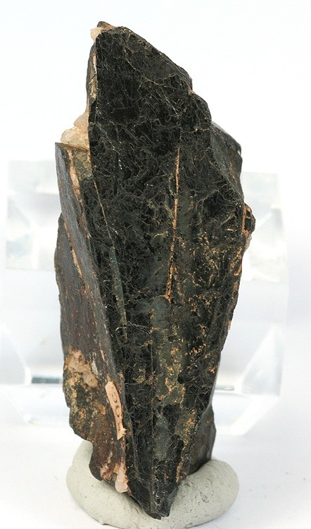 Wolframite Locality: Camborne - Redruth - St Day District, Cornwall, England, UK (Locality at ) Size: 6.0 x 2.9 x 2.1 cm. An old-time wolframite specimen from the famous Camborne-Redruth-St. Day District of Cornwall, England. The piece consists of massive, partially euhedral, highly lustrous to moderate lustre, parallel-growth wolframite blades. Certainly not pretty to look at, but this is large and very highly representative from this classic and famous district. Accompanied by an expertly handwritten, faded label from an older collection. The collection this came out of was a museum stash dating to prior to World War I.